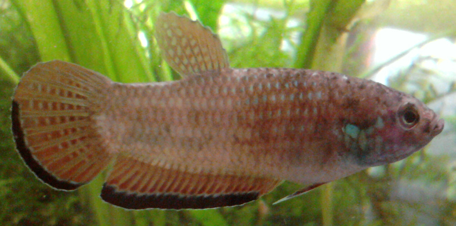 Capitive-raised F1 Betta simplex (presumed Male)